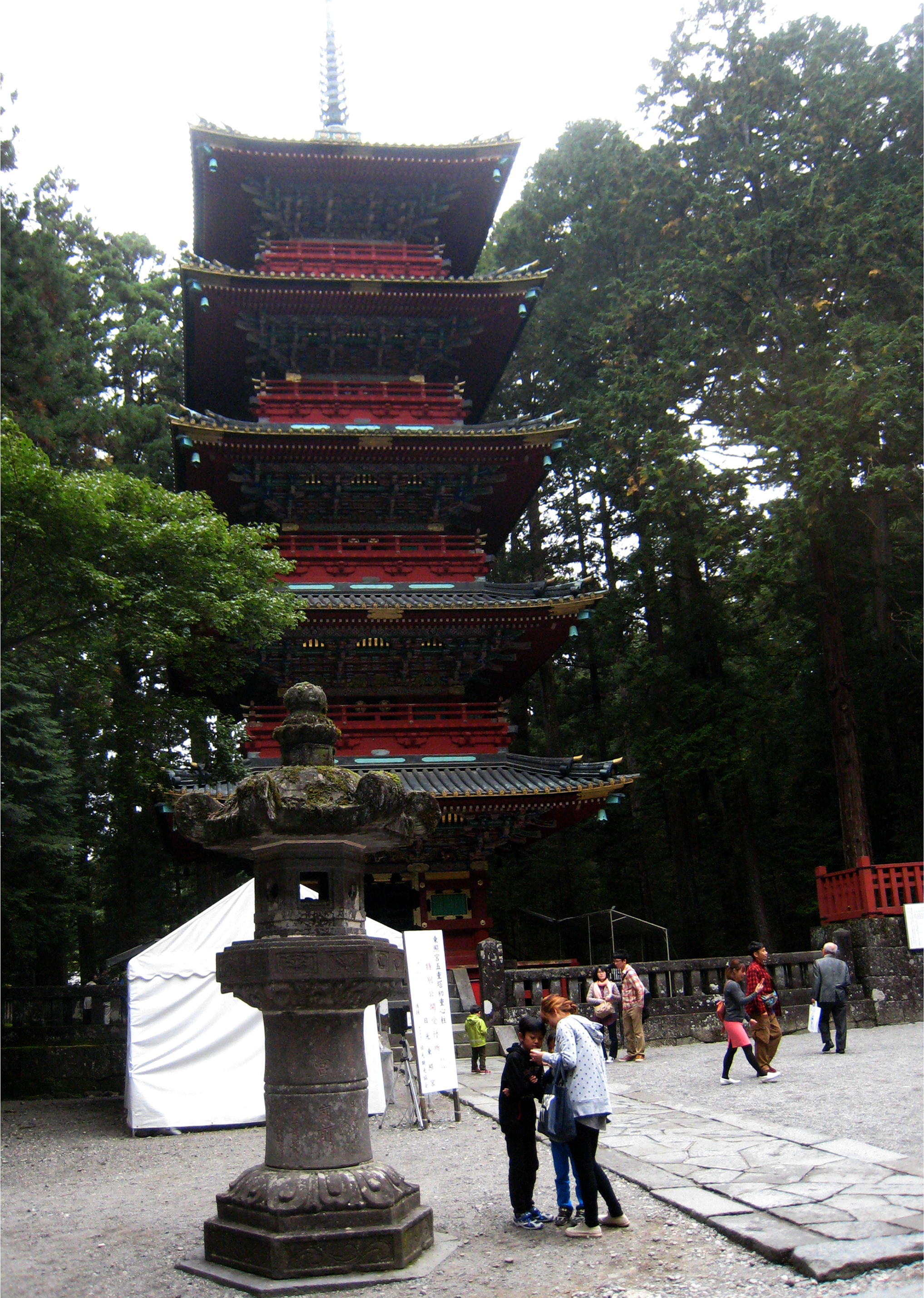 Five-story pagoda at Nikkō Tōshō-gū